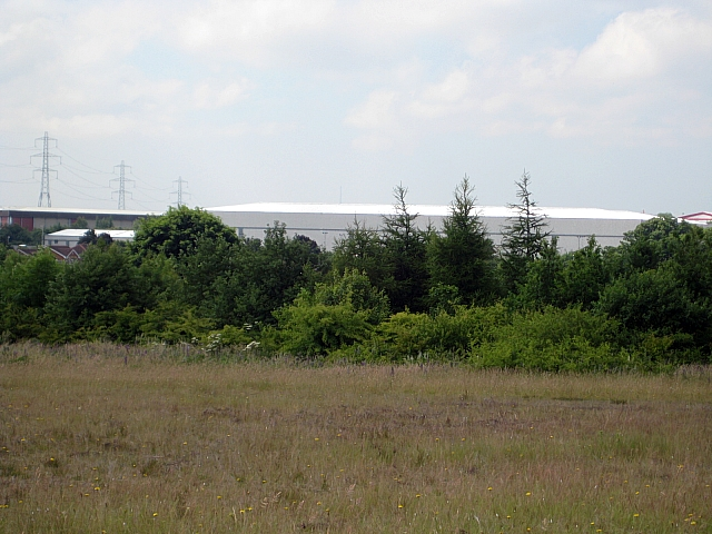 Lofthouse Colliery Park. Standing virtually in the centre of the park, a view over to Unit 41, a major Wakefield industrial estate. It makes you realise how important it is to keep these green spaces free from future development.